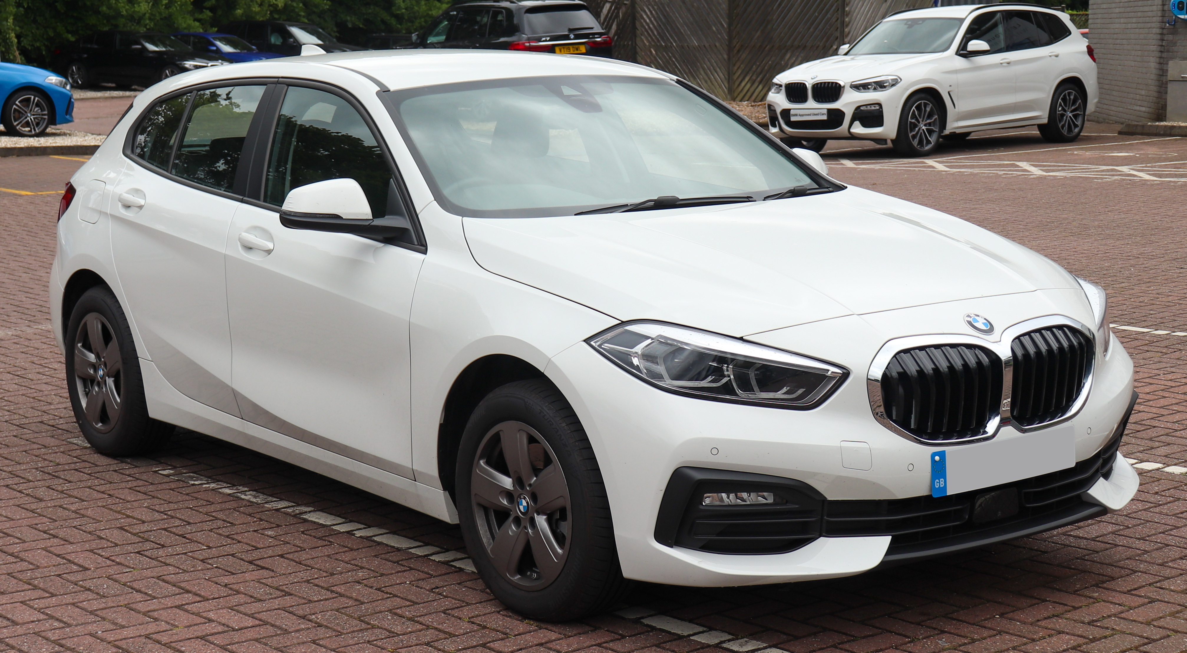 2019 BMW 118i SE 1.5 Front Taken in Leamington Spa